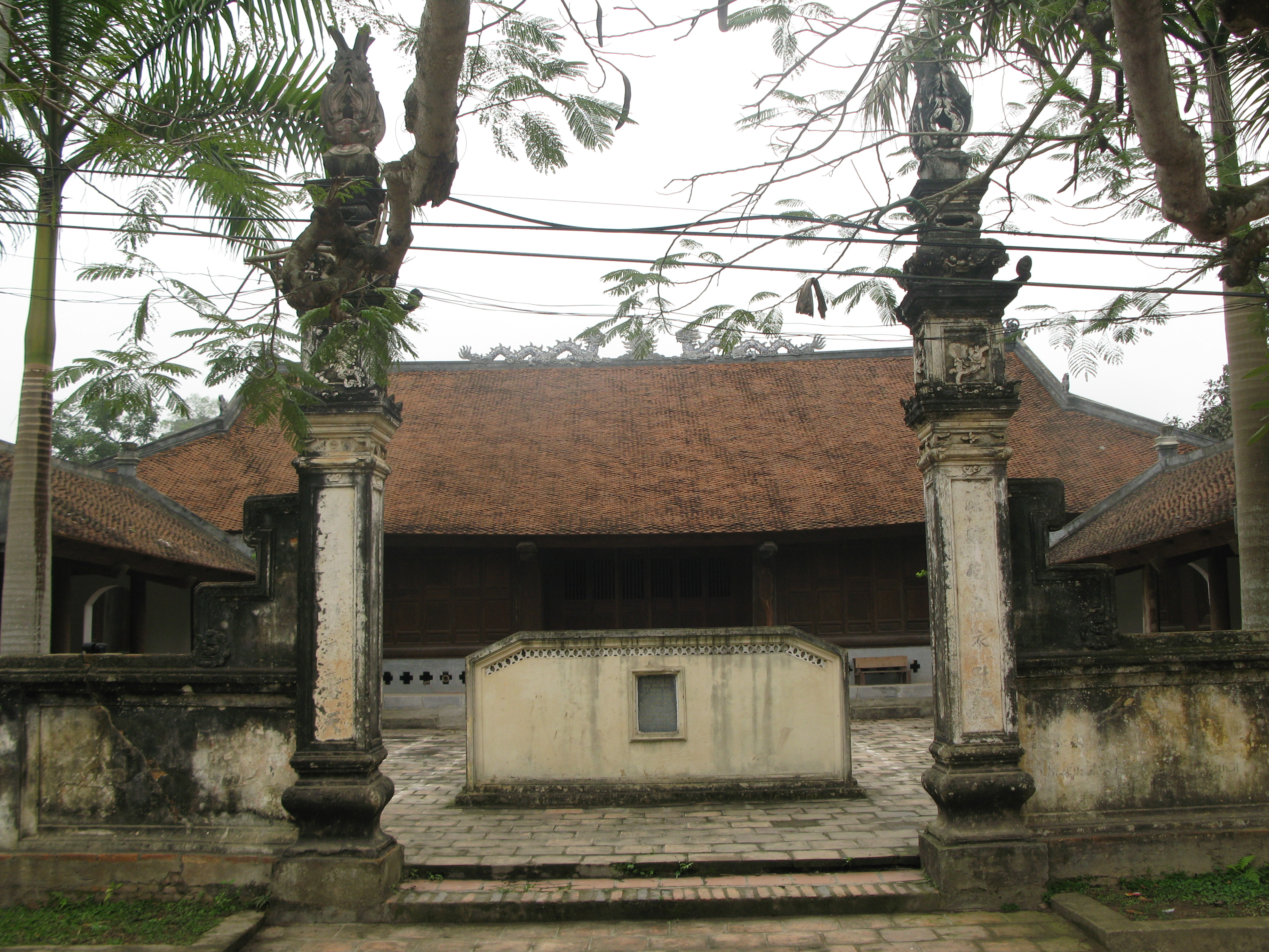 The temple of Van Xuyen village, Hiep Hoa district, Bac Giang province